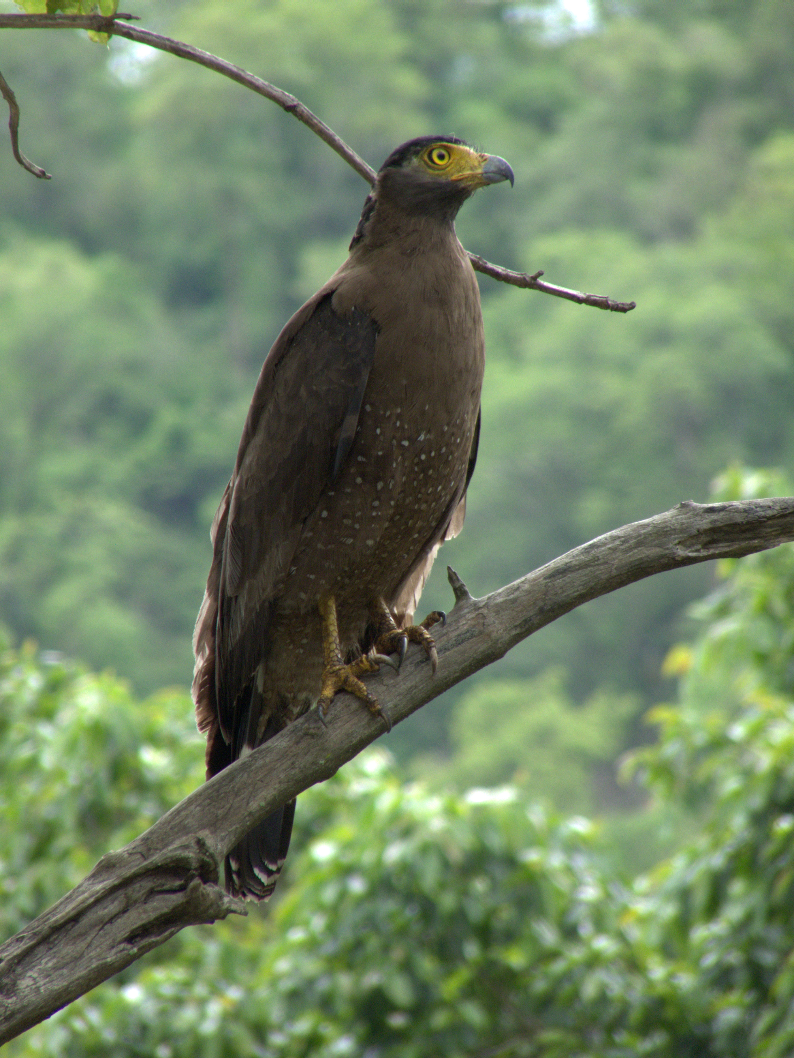 The Crested Serpent Eagle found at Anamalai Tiger Reserve